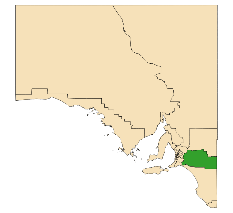 Electoral district 2018 boundaries shown in green